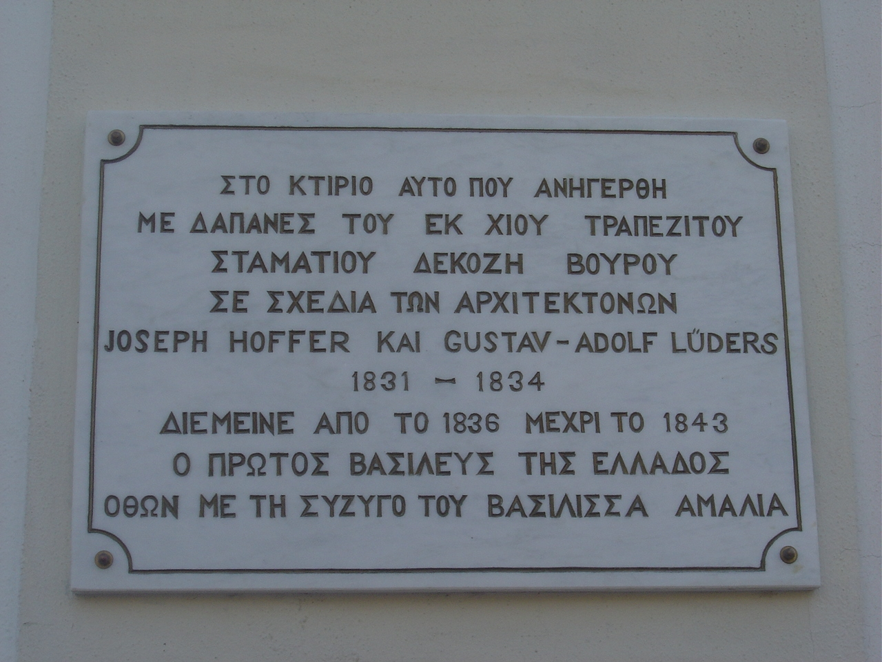 Plaque in front of King Otto House in Athens